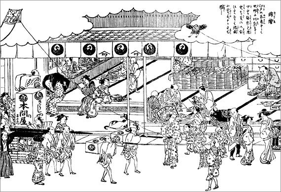 Nishiki-e, by Settan Hasegawa, from Edo Meisho Zue, depicting Kiuemon Tsuruya's jihon tonya (publishing house and whole seller of popular books in Edo during the later half of the Edo period Japan).